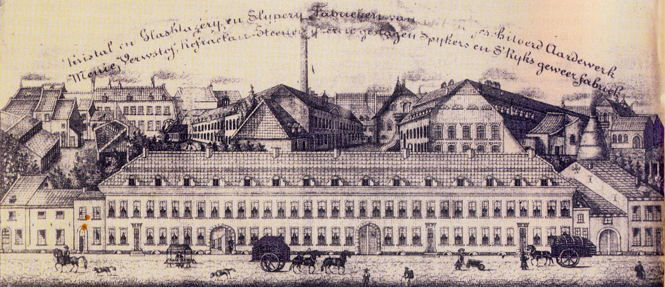 Detail of an invoice of 1846 of the glass and earthenware factory of Petrus Regout & Co. in Maastricht, Netherlands, to the Nederlandsche Handel Maatschappij. The letterhead depicts the factory in Boschstraat before 1846.